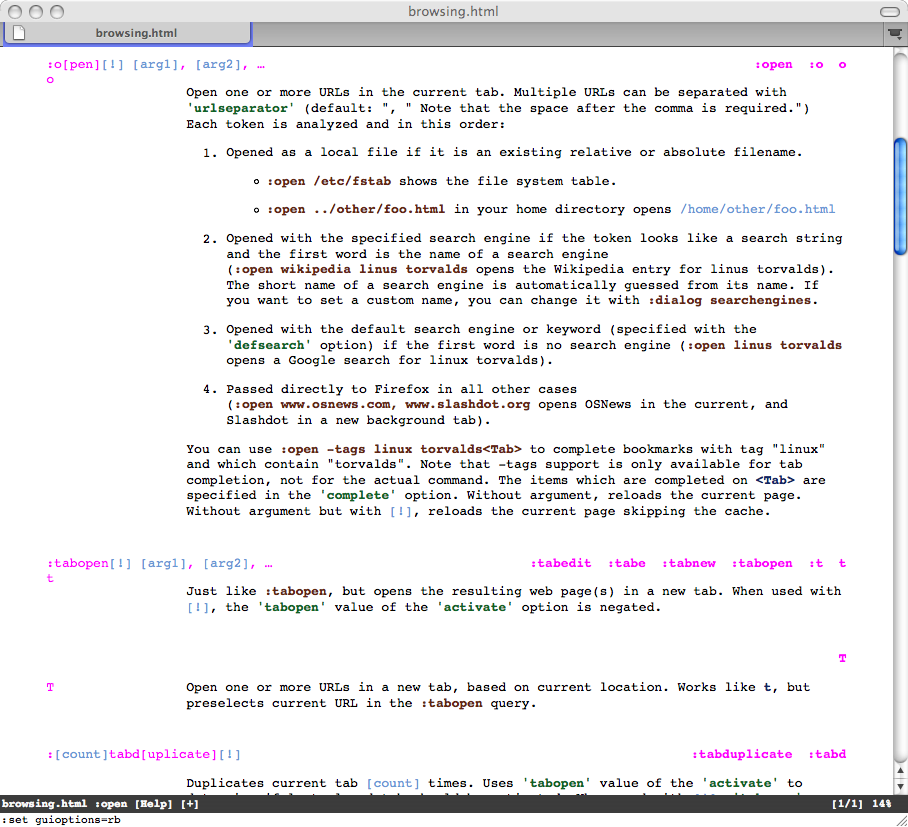 Shows example Vimperator help documentation